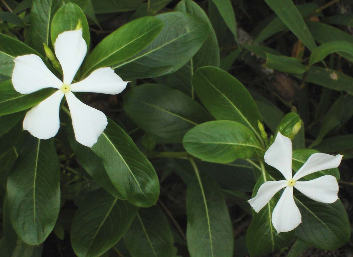 Catharanthus roseus, white form/variety; (vāleti) in Tonga